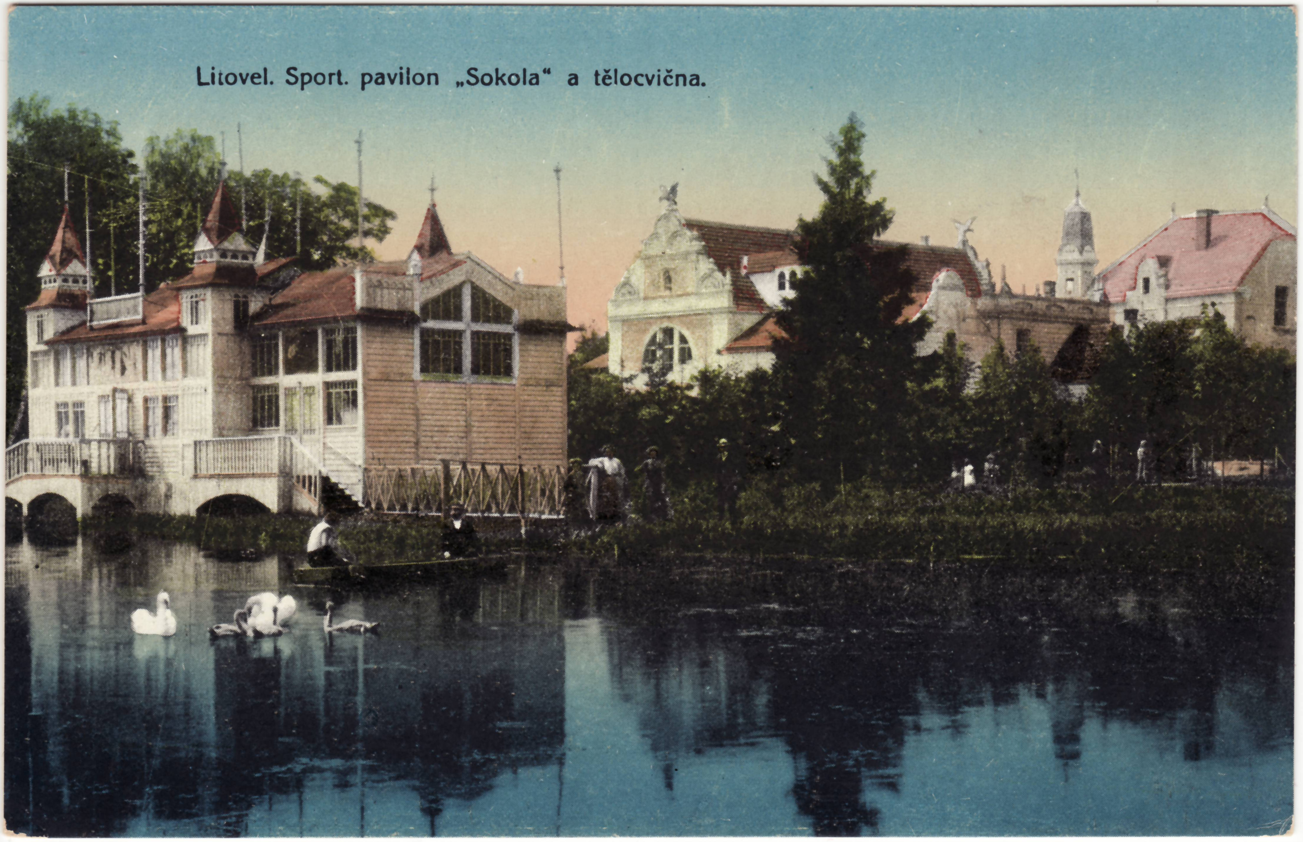 On the left: pavilion of Sokol in Litovel. In the center: the building of the Sokol house (Czech: sokolovna), later rebuilt into the church of the Czechoslovak Hussite Church.